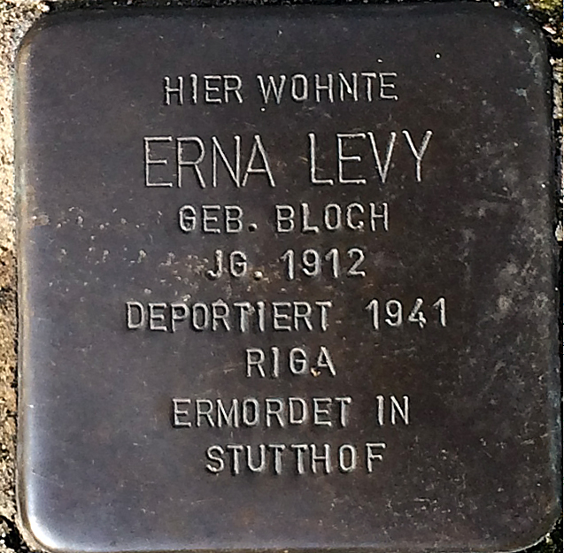 Stolperstein - Stumbling Stone in Nettetal, NRW, Germany Erna Levy